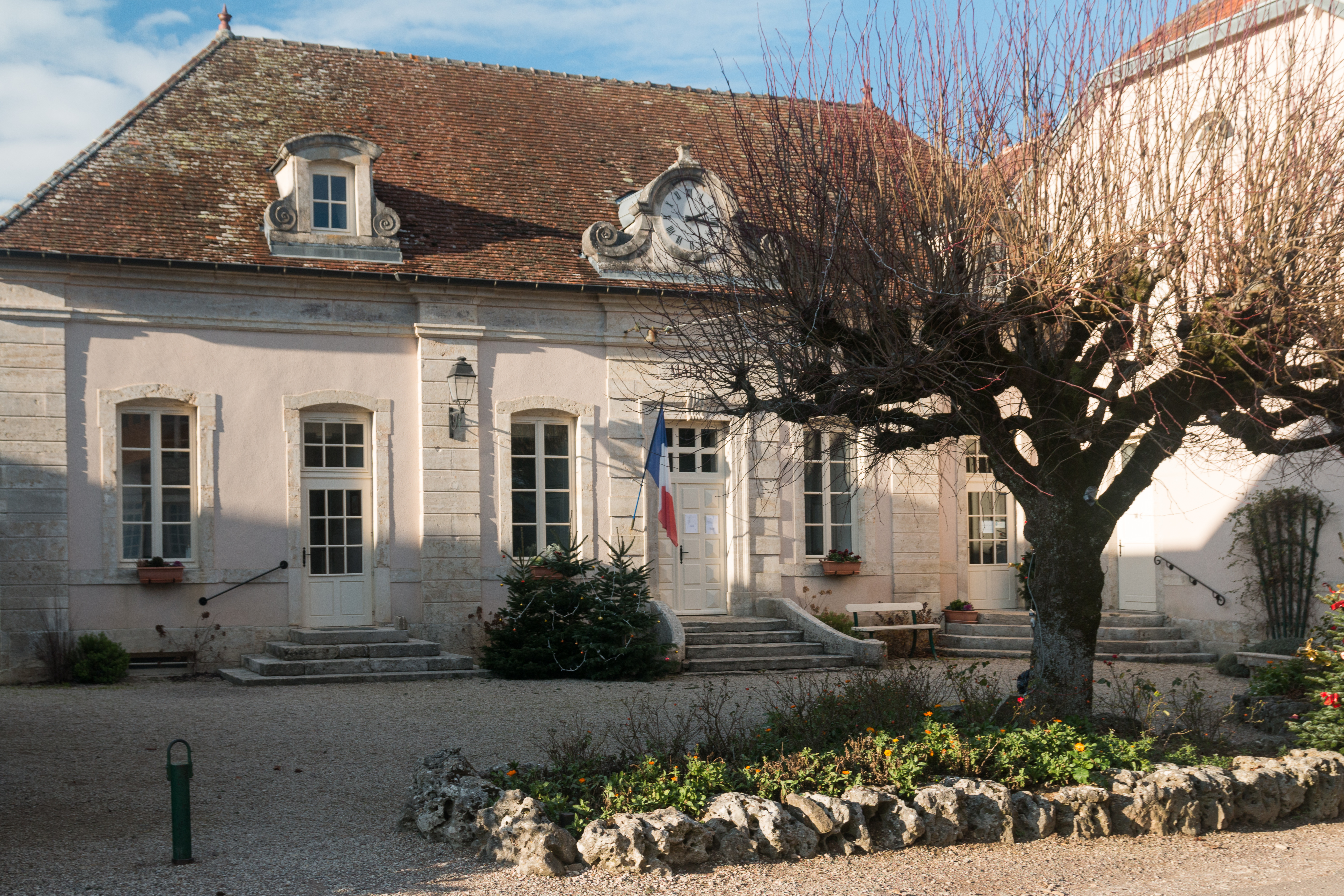 Town hall of Mont-Saint-Jean, Côte-d'Or.